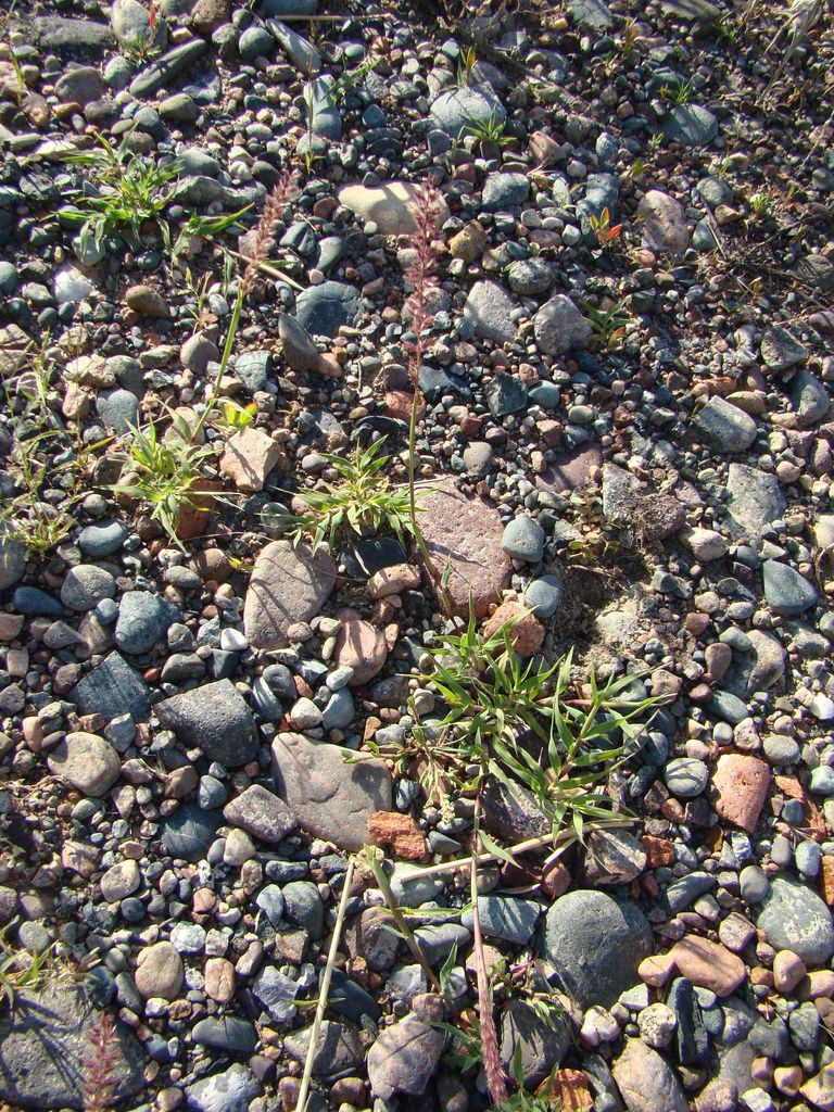 A sparse colony of Tragus racemosus on a roadside nearby Tokmok Town. 18.06.2013. Photo: G.Lazkov.